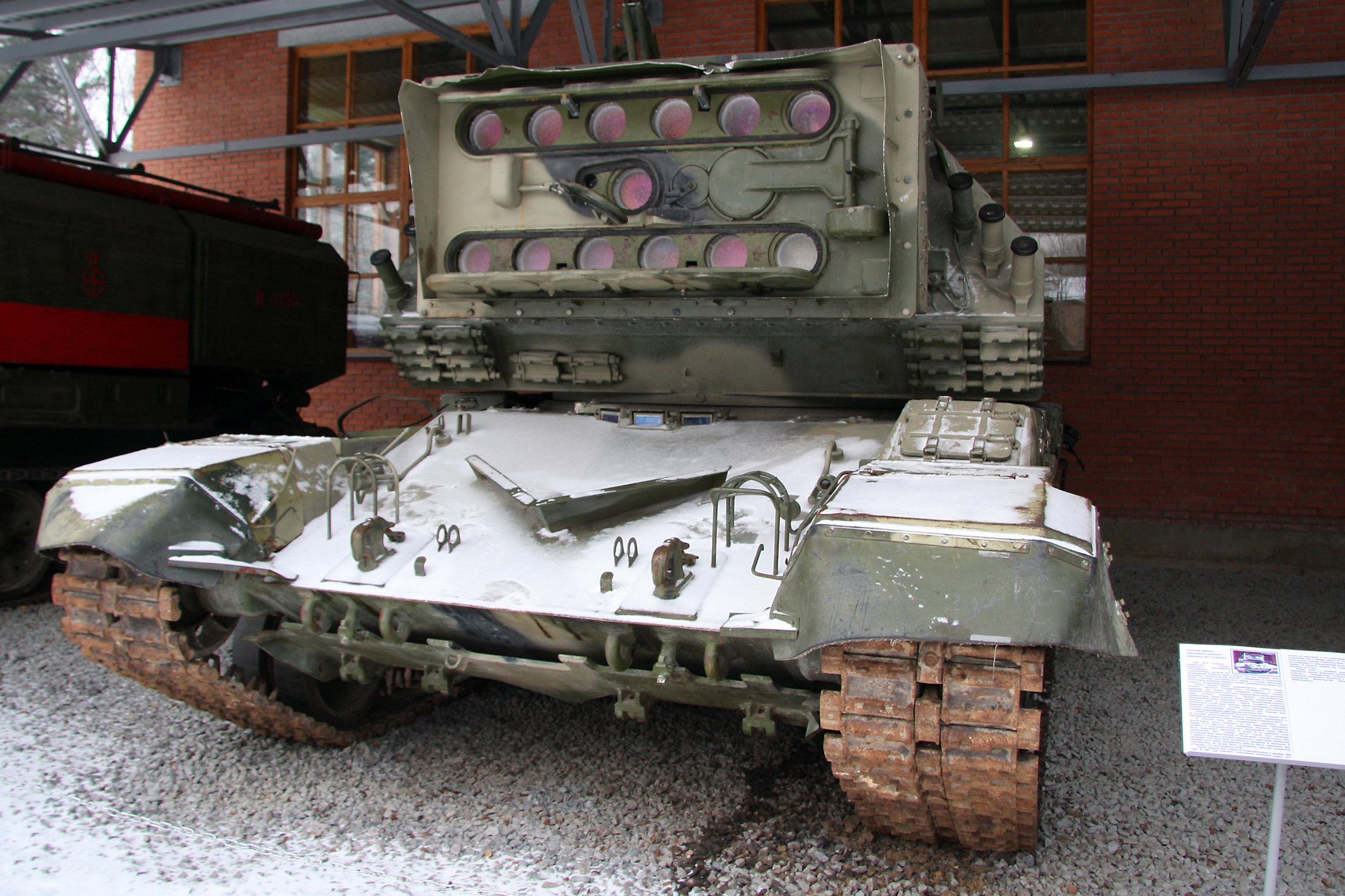 Self-propelled laser system 1K17 Szhatie.